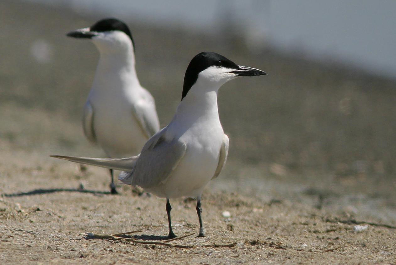 These van Rossem's gull-billed terns were photographed at the San Diego National Wildlife Refuge located in southern California. They are a medium-sized migratory seabird that feed on a variety of small prey items, including crabs, lizards, insects, chicks of other bird species, and fish. They are also a ground-nesting species whose nests consist of shallow scrapes with pieces of rocks, shells, or fish bones. (Eric Kershner/USFWS)